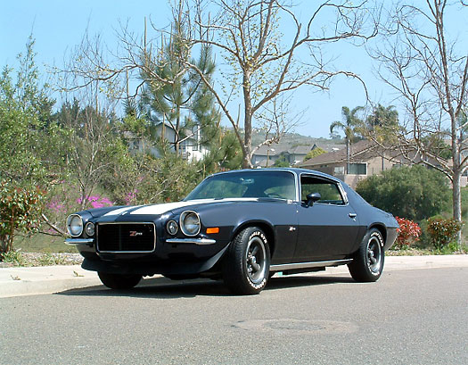 1970 Camaro Z28